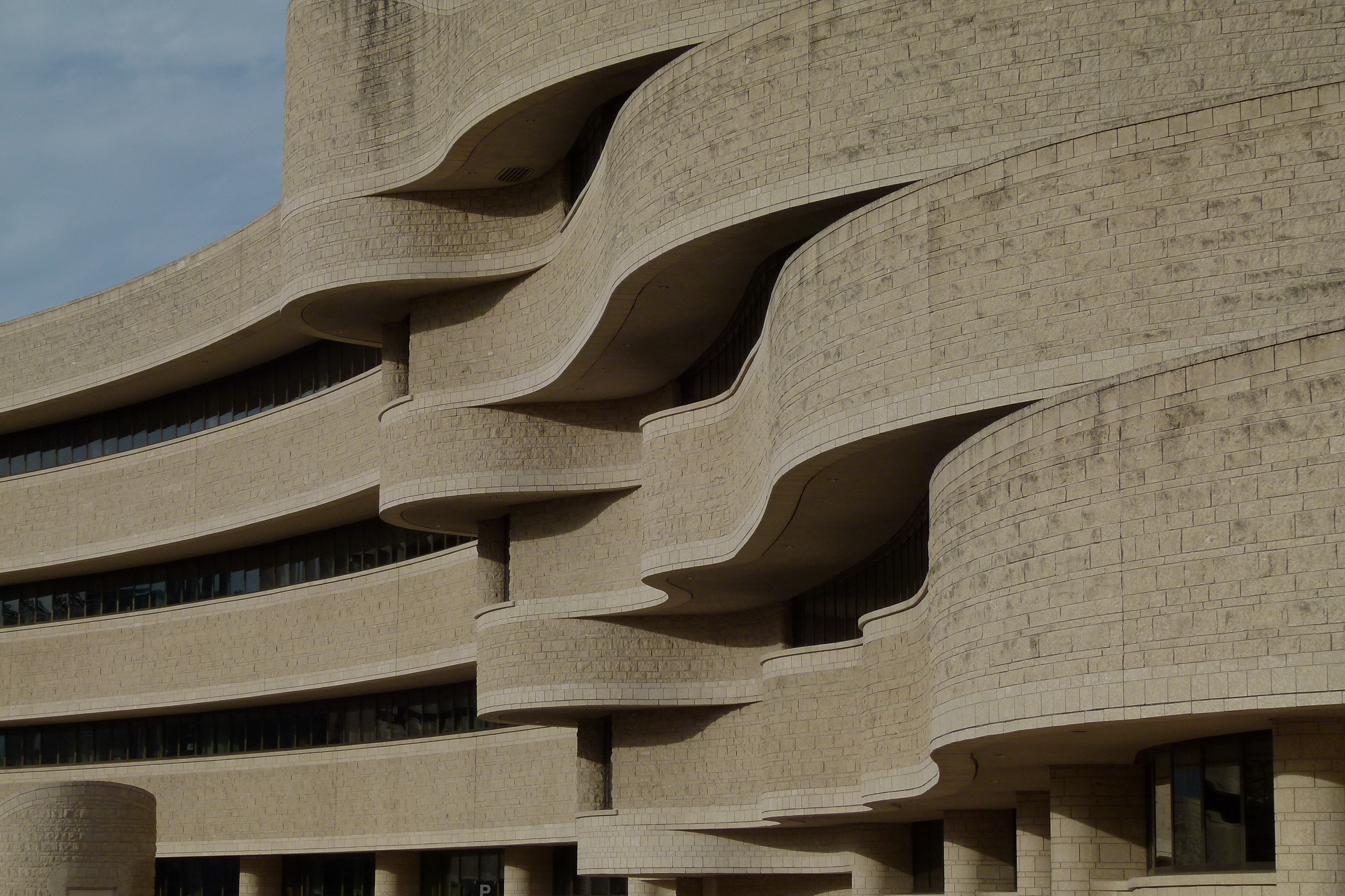 Canadian Museum of Civilization in Ottawa